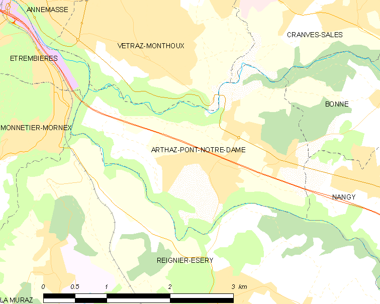 Map of French municipality Arthaz-Pont-Notre-Dame